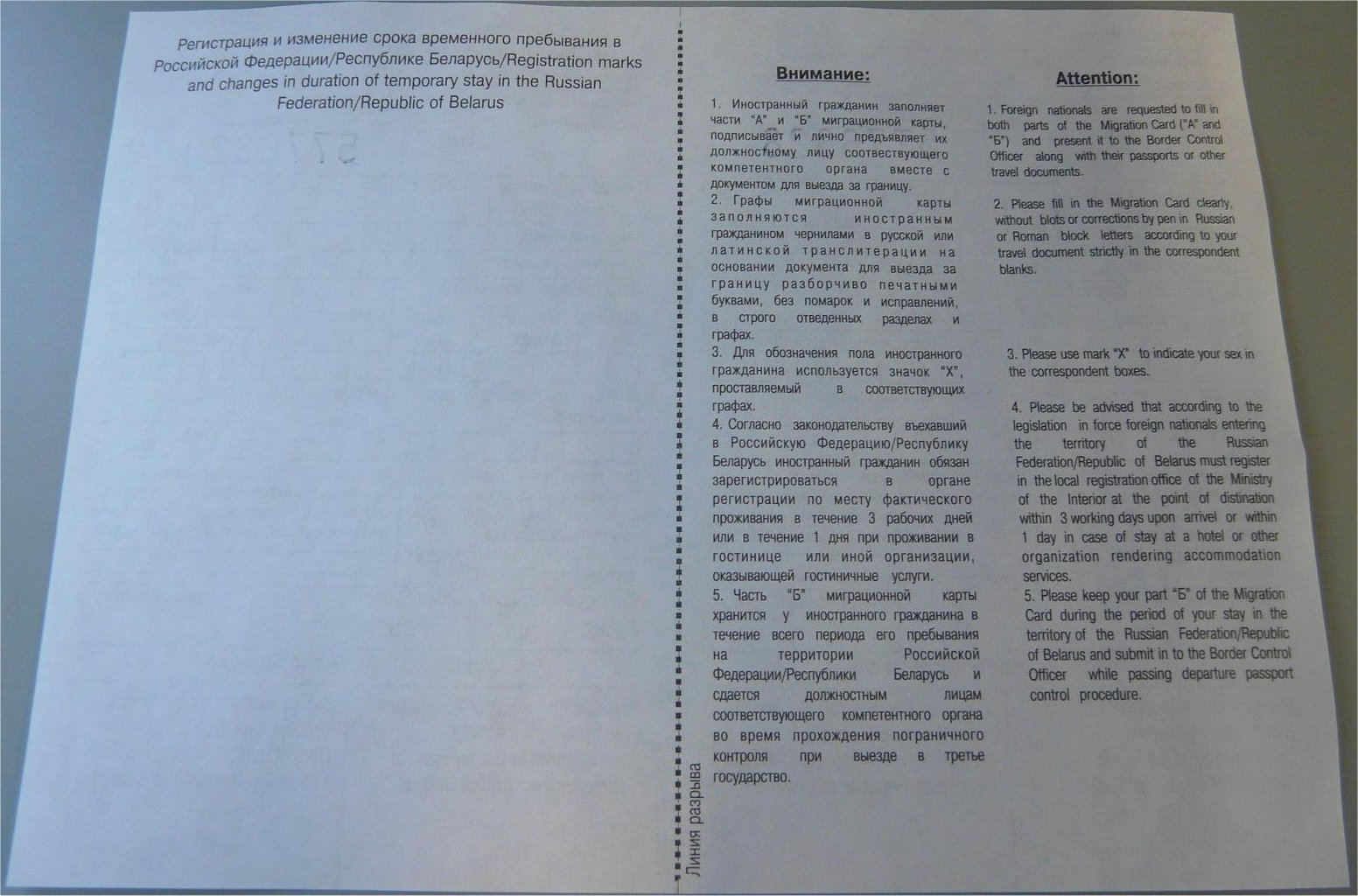 Migration card (Russia and Belarus) from behind. This migration card received at the border station or in airplane (or train) when entering the country (Russia or Belarus). Visitor needs to fill the misisng information to A and B parts of this document. Part A is left at the border control when entering the country. Part B is kept during the visit and returned to the border control as one leaves the country. Миграционная карта 2